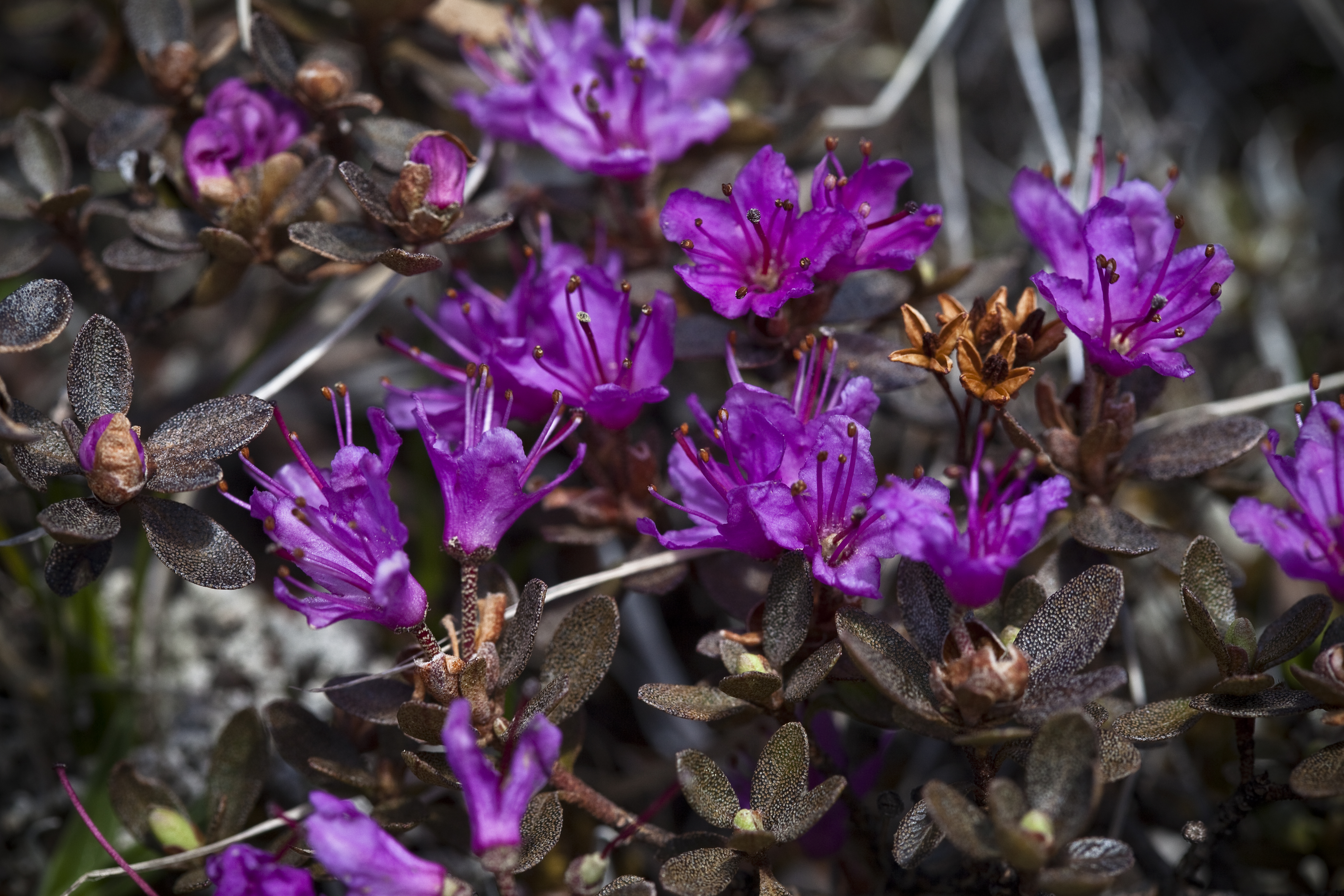 Rhododendron lapponicum, Denali National Park and Preserve, AK, USA